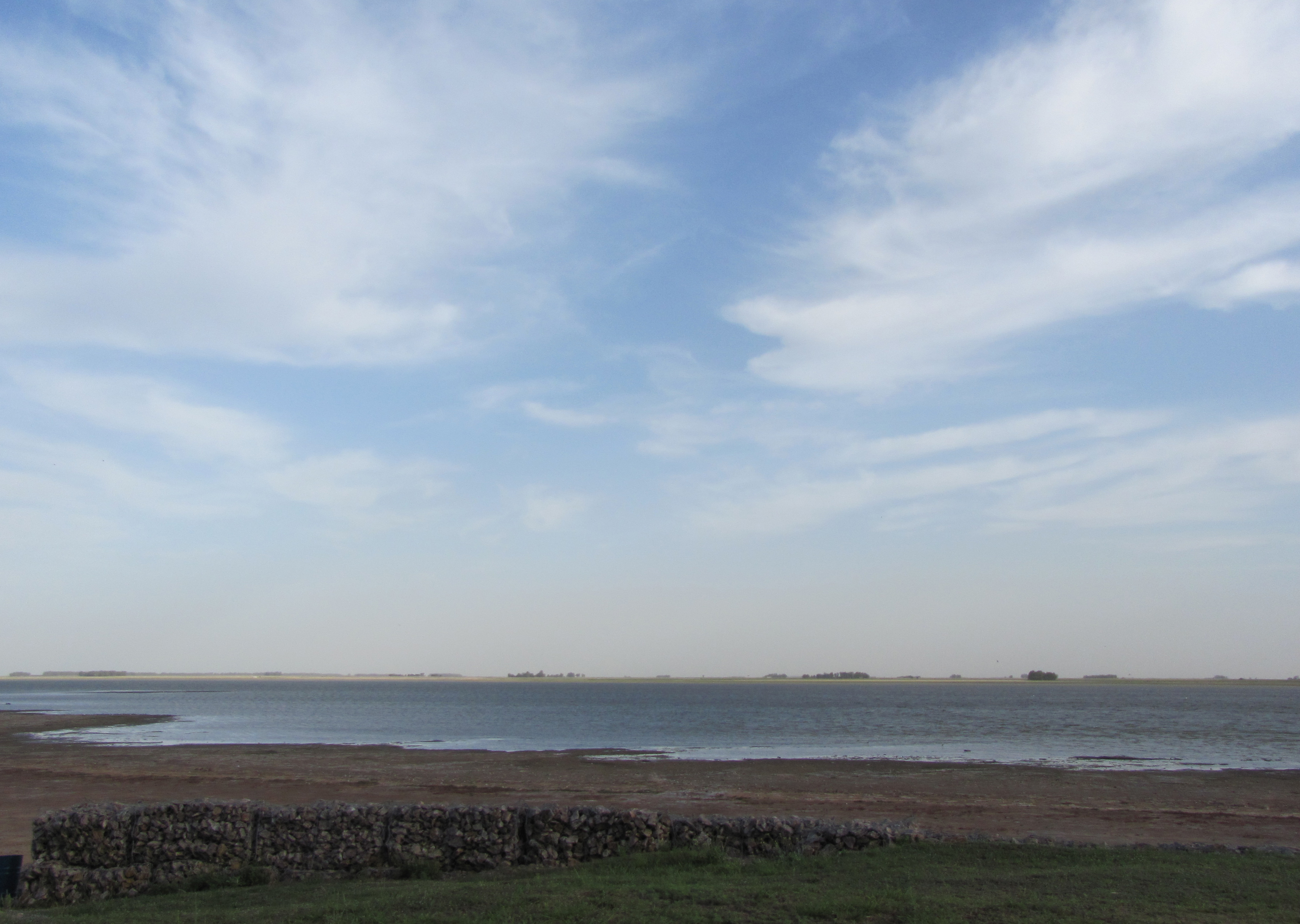 Lago Cochico en Guamini